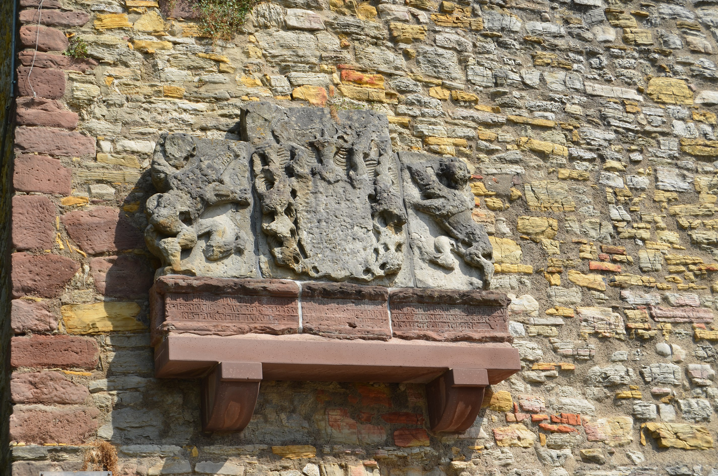 Einbeck (Lower Saxony, Germany) – district Salzderhelden – Heldenburg Castle – tower This is a photograph of an architectural monument.It is on the list of cultural monuments of Einbeck This photograph was taken with a Nikon D7000